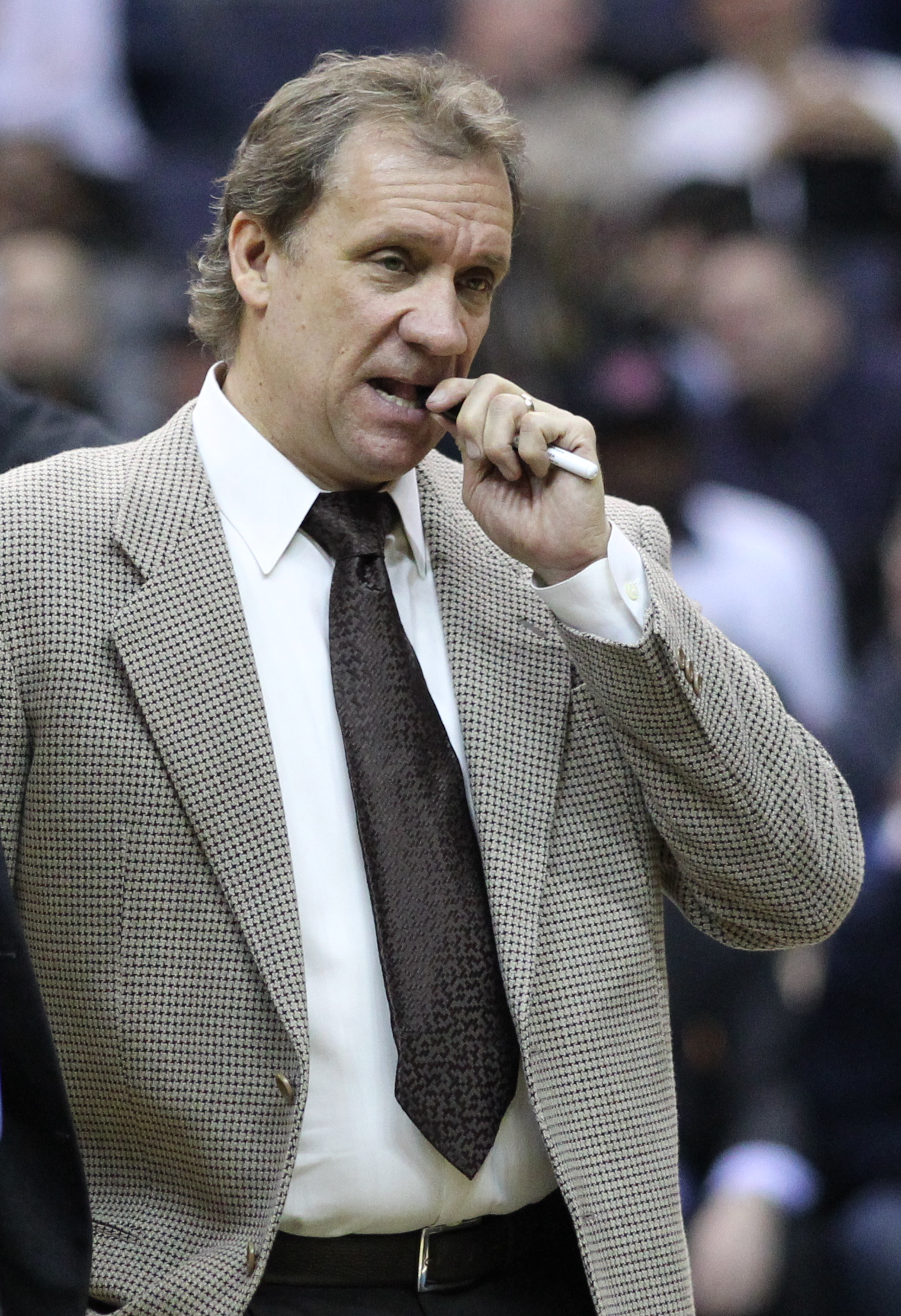 Washington Wizards v/s Denver Nuggets January 25, 2011